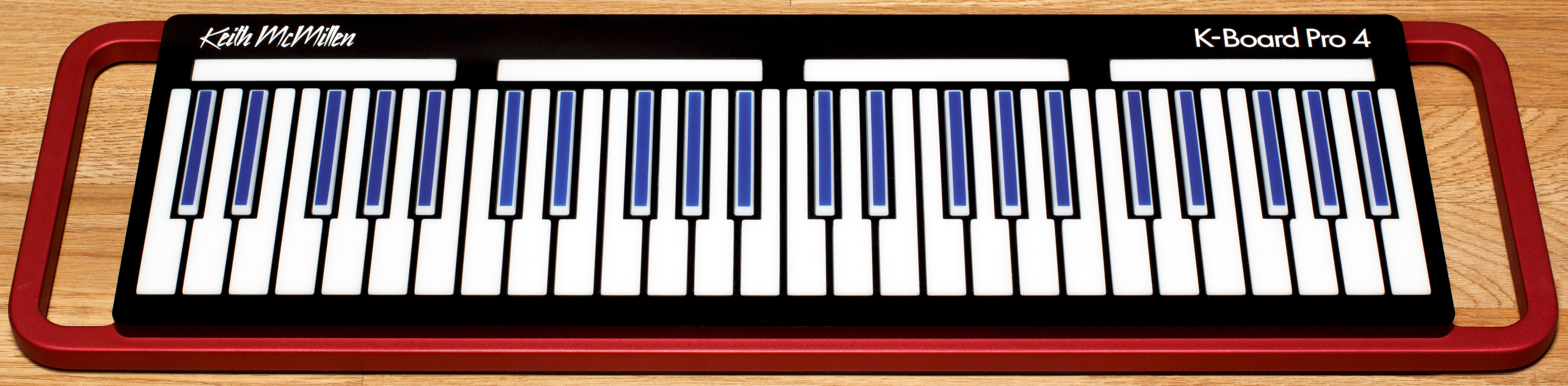 K-Board Pro4